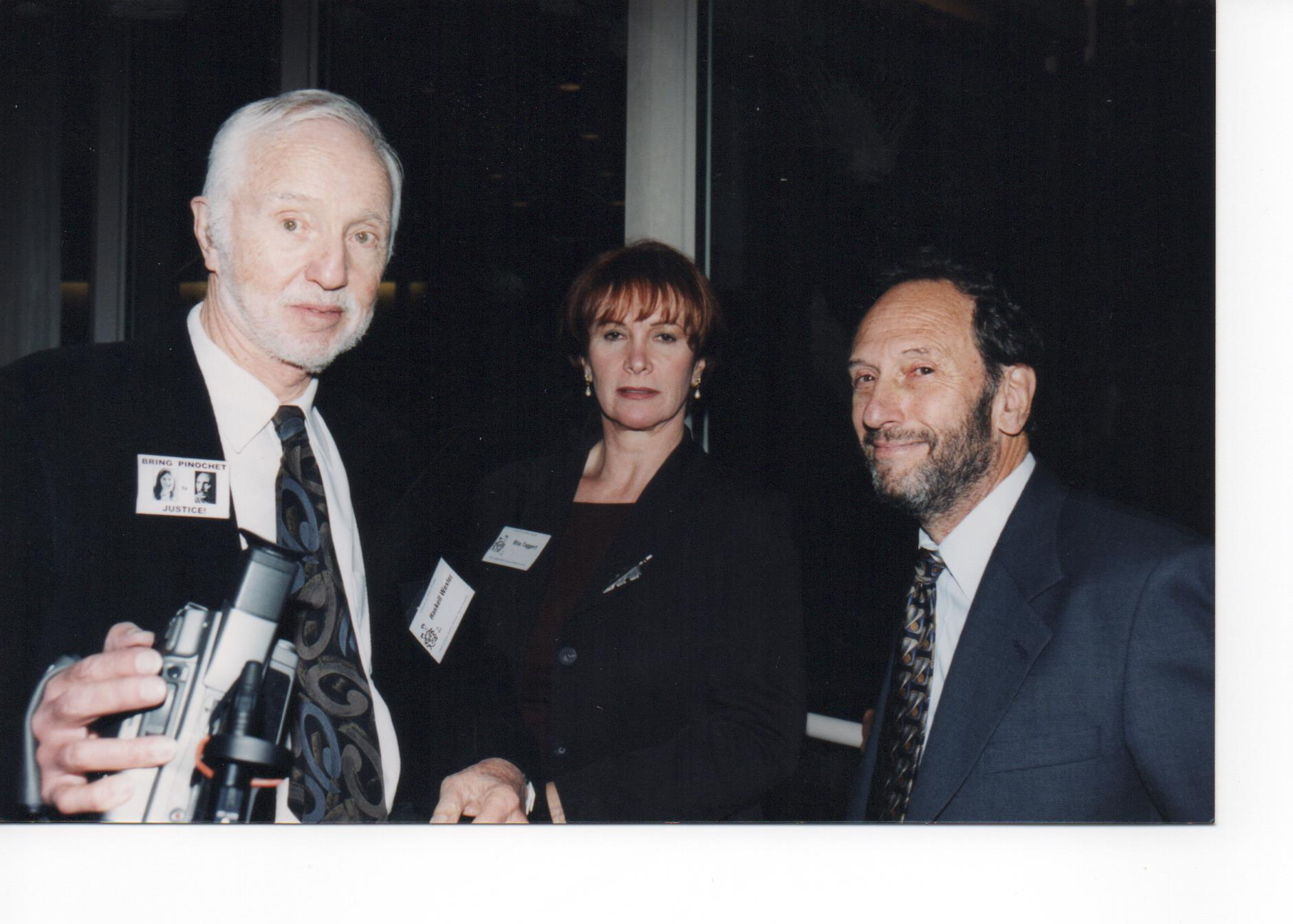 Saul Landau with longtime friend Haskell Wexler, the filmmaker, and Rita Taggart at the 1999 Letelier-Moffitt Awards.